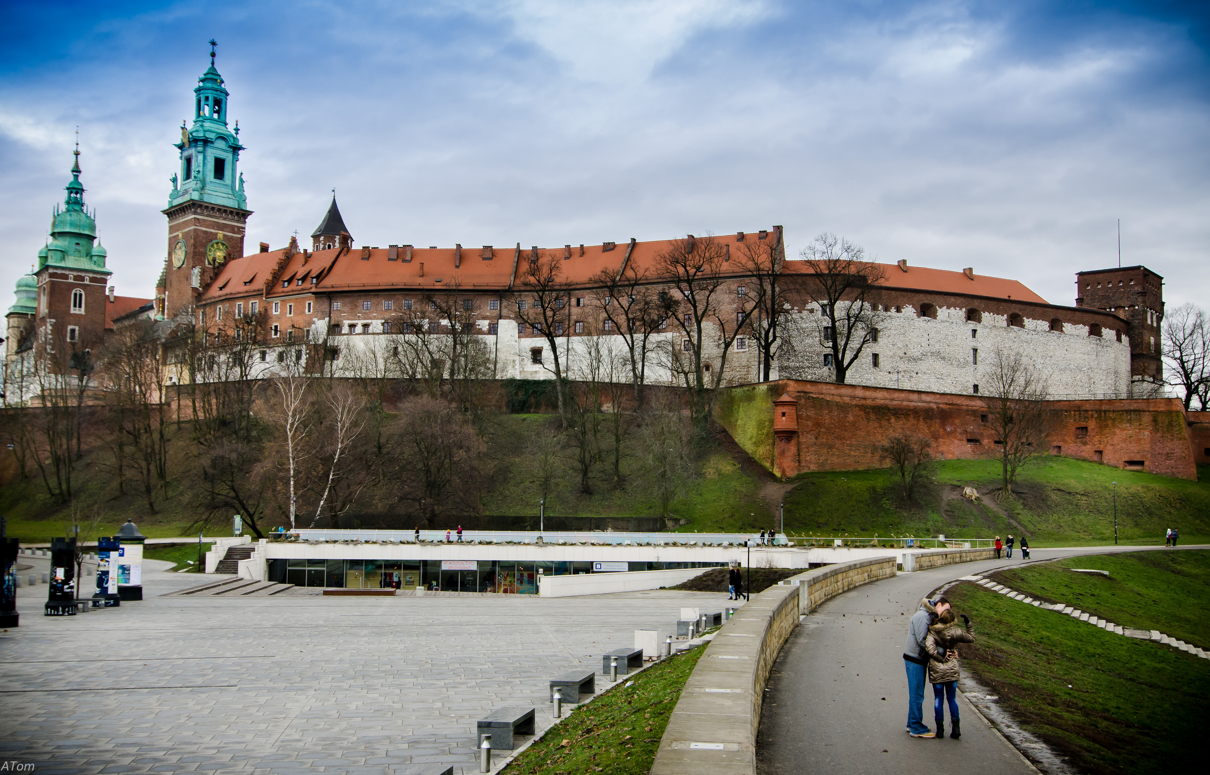 Wawel Royal Castle in Cracow, Poland during winter, 2012. Now - The National Art Collection